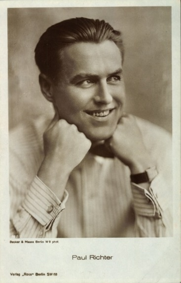 Portrait of Austrian actor Paul Richter (1895–1961) by Becker & Maass, Berlin